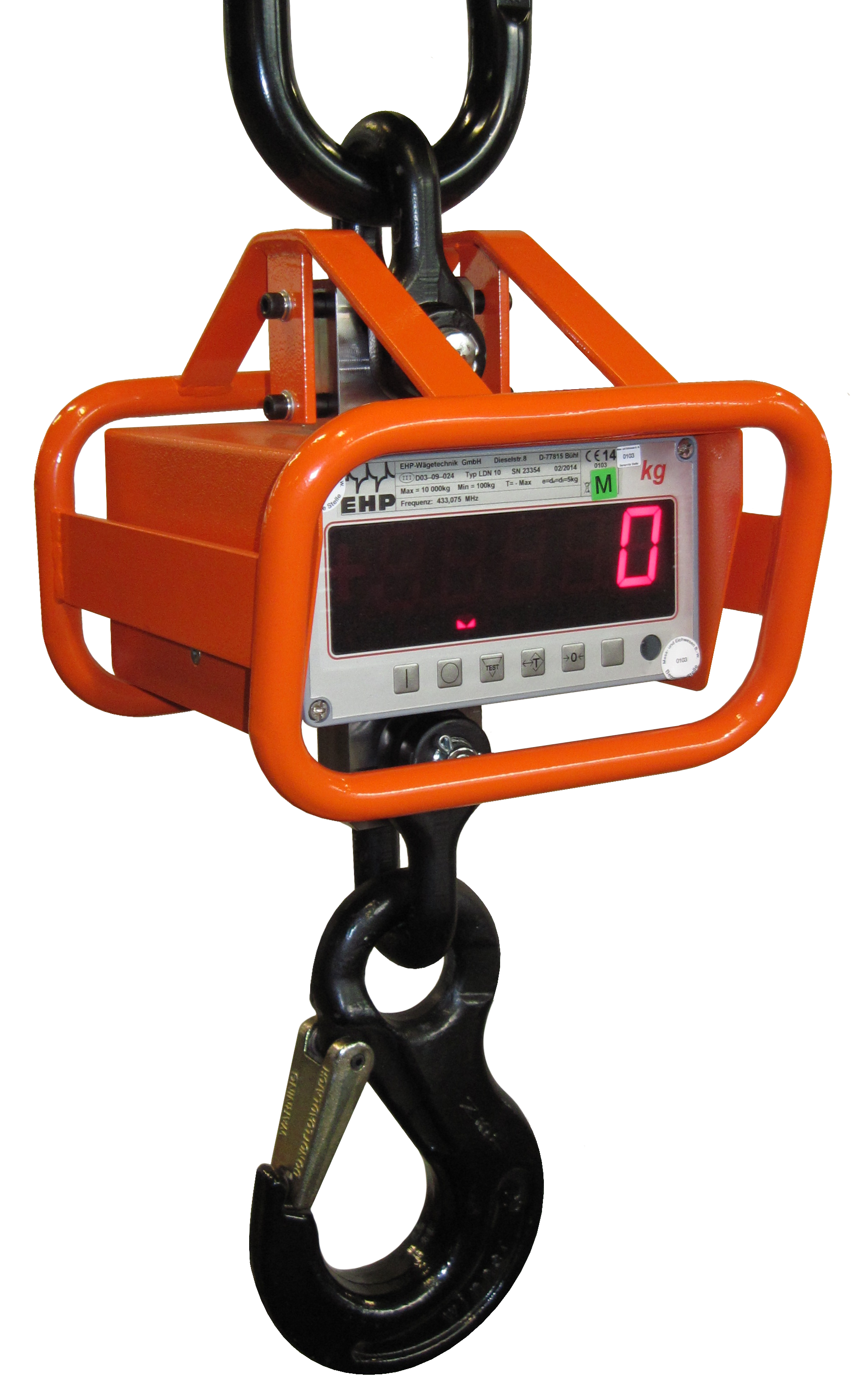 Calibrated crane scale with max. load capacity of 10t and orange ram protection